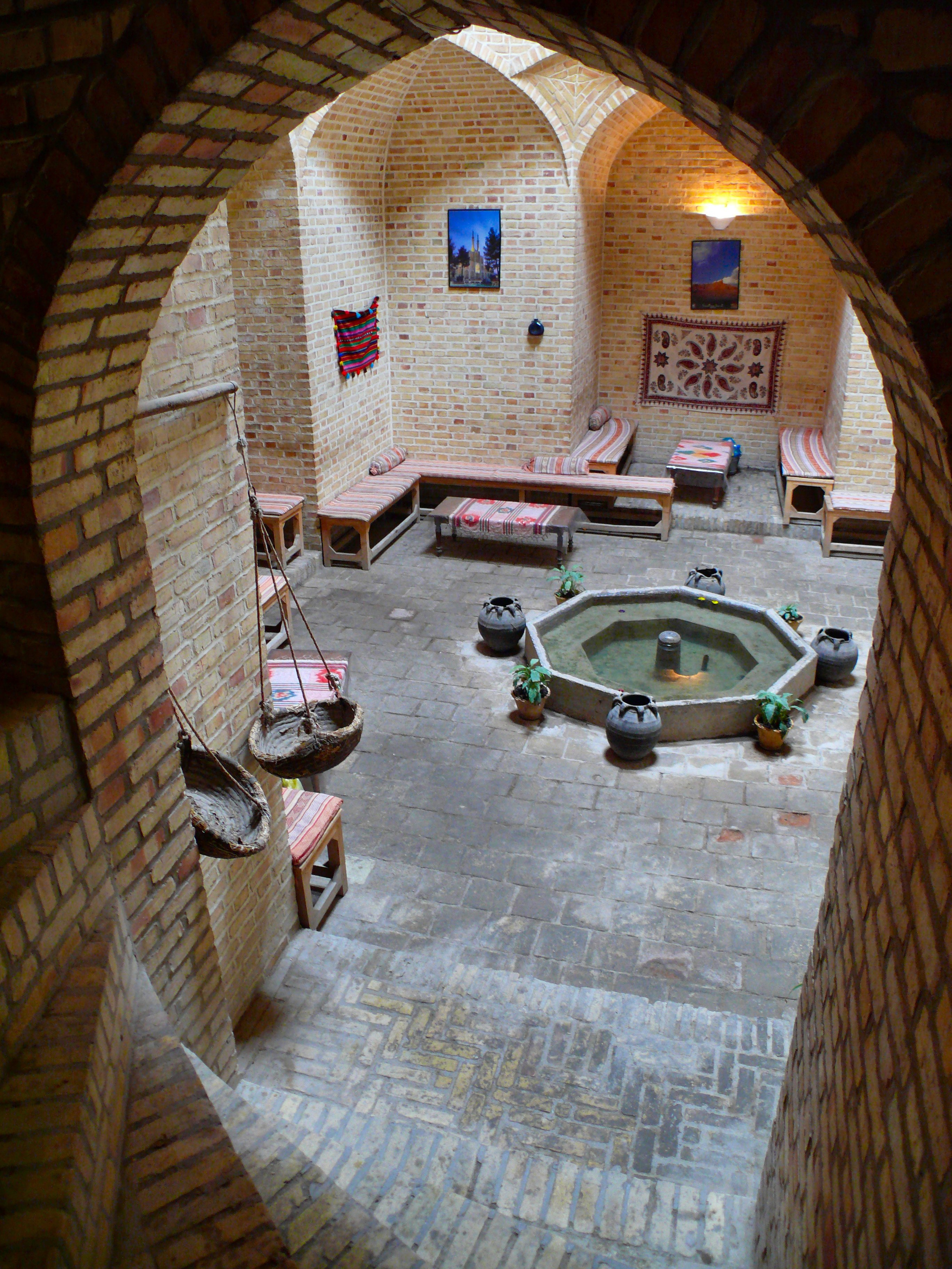 A Chaikhaneh (tea house) close to the Zendan-e Eskandar (Alexander the great’s prison) at Yazd. Its location underground allows to spend some wonderful moments in a cool ambiance, refreshed by the flow of the water in the central pool.